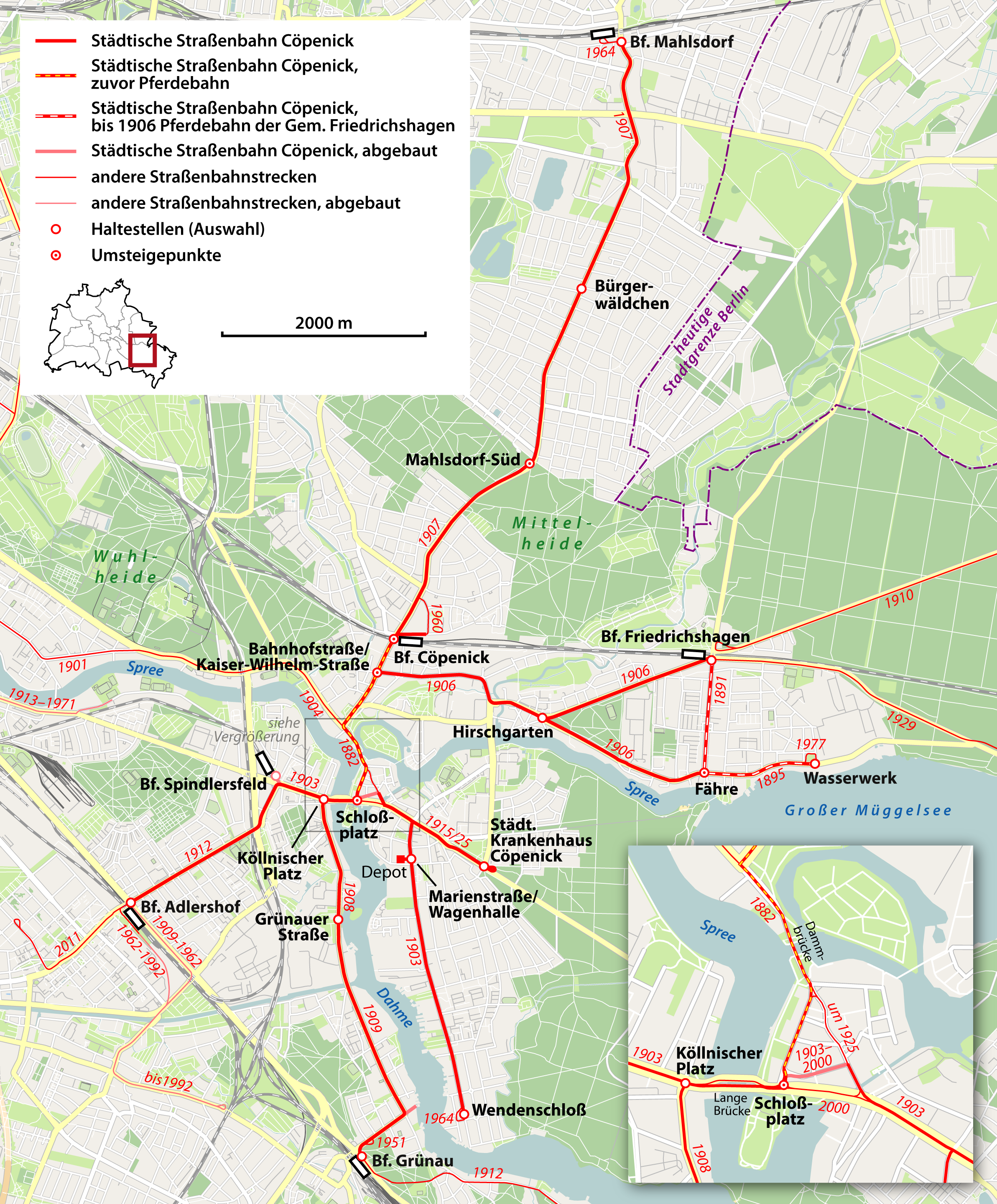 Map of Städtische Straßenbahn Cöpenick This map may be incomplete, and may contain errors. Don't rely solely on it for navigation.